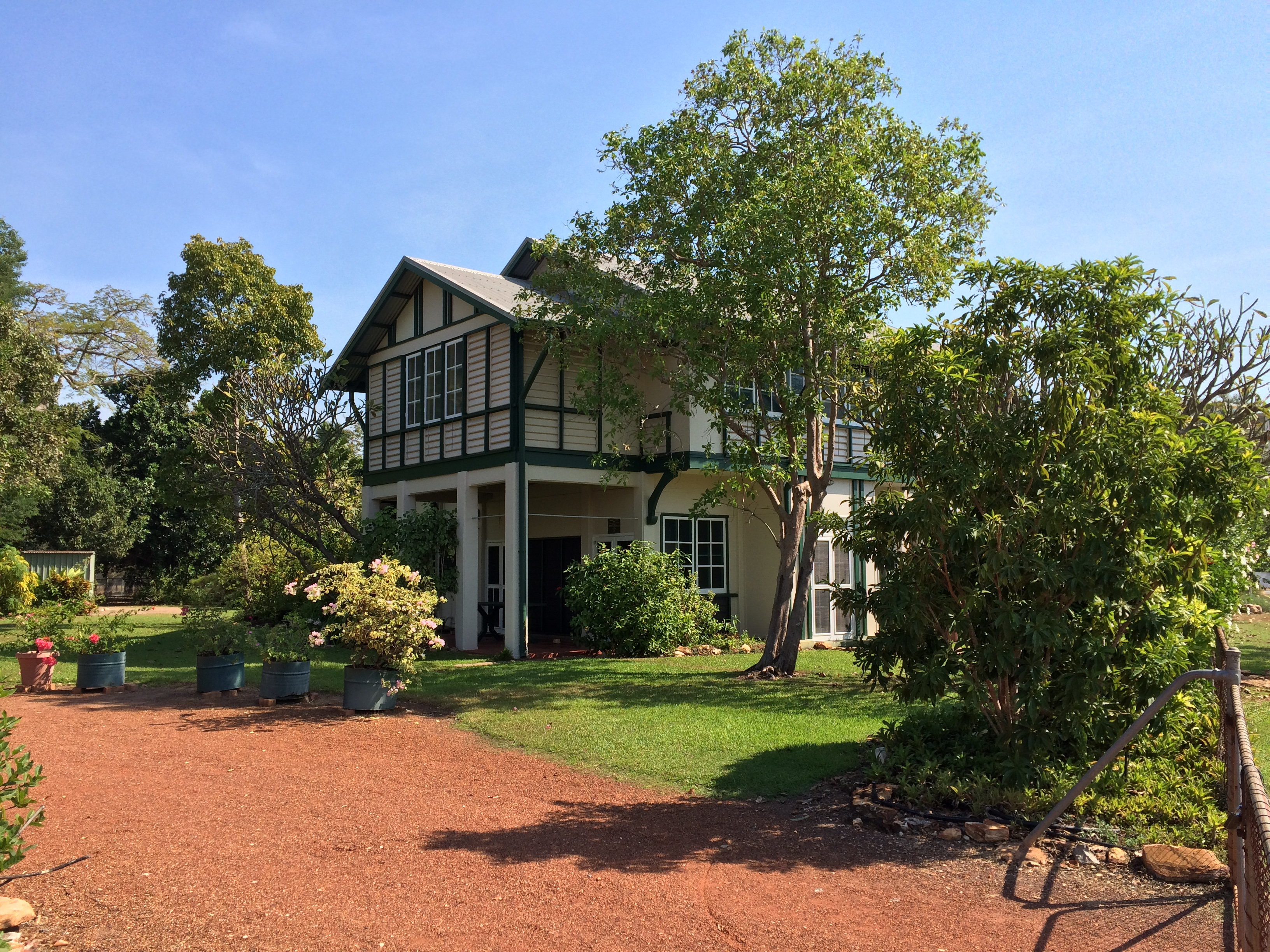 Burnett House at Myilly Point in the Darwin suburb Larrakeyah.